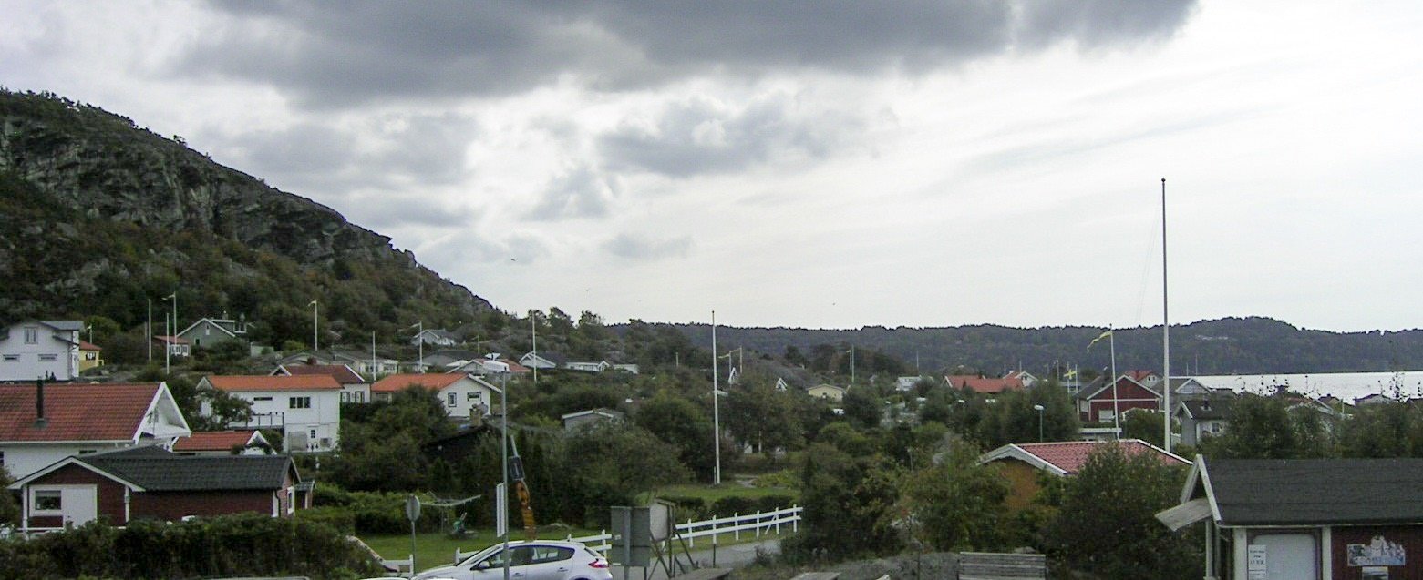 The small village of Rörtången in Bohuslän, Sweden